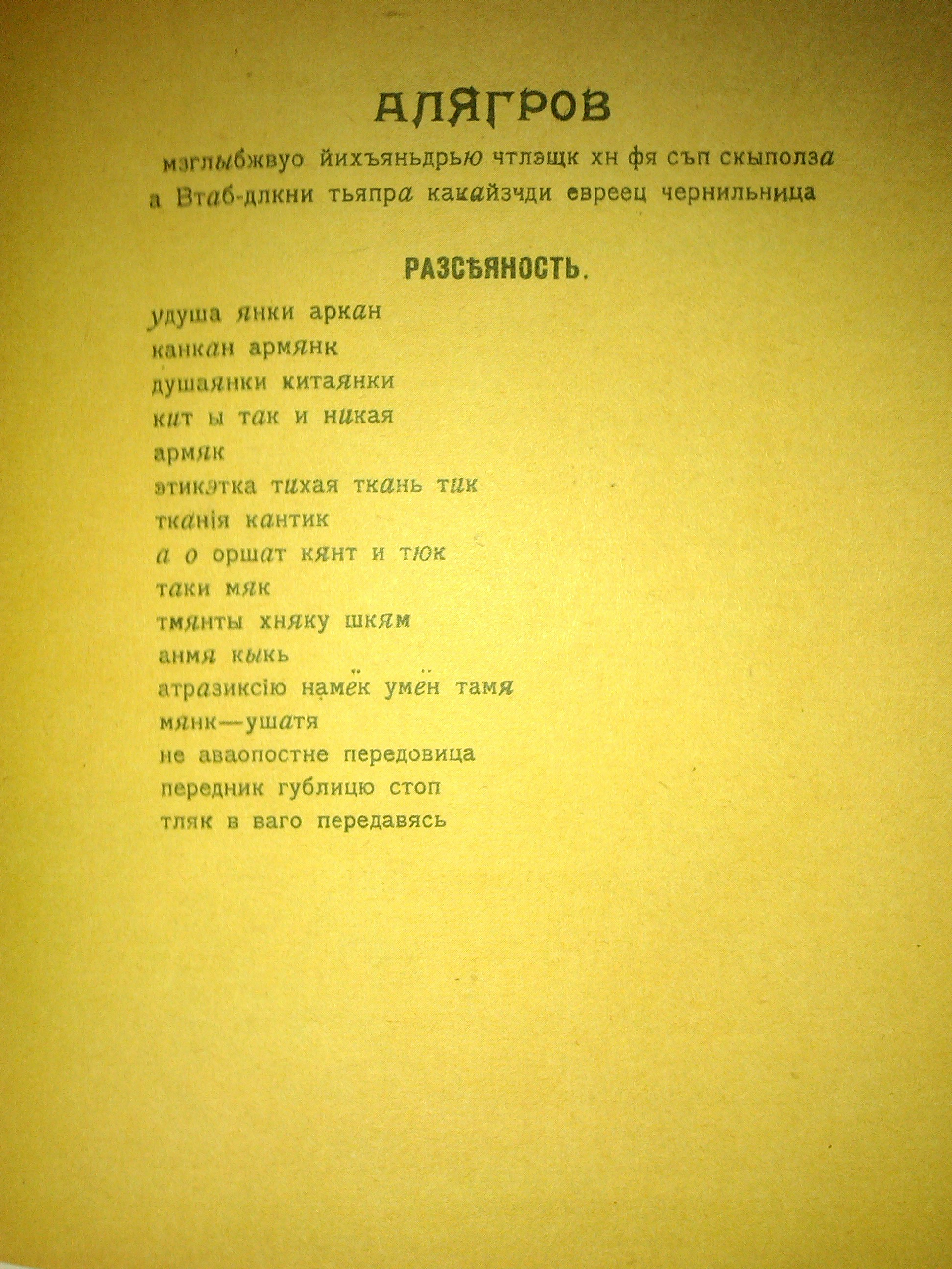 Poems of Jakobson from the book "Zaumnaja Gniga", printed in 1913, Jakobson(Aliagrov) and Kruchenykh